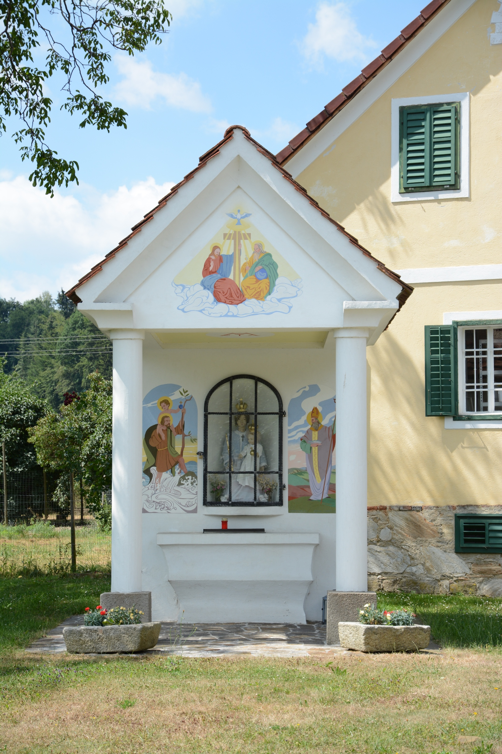 Chapel Unterfeistritz